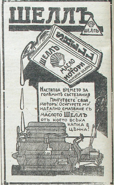 Shell Advertisment in Macedonia Newspaper, Sofia, 16 April 1929